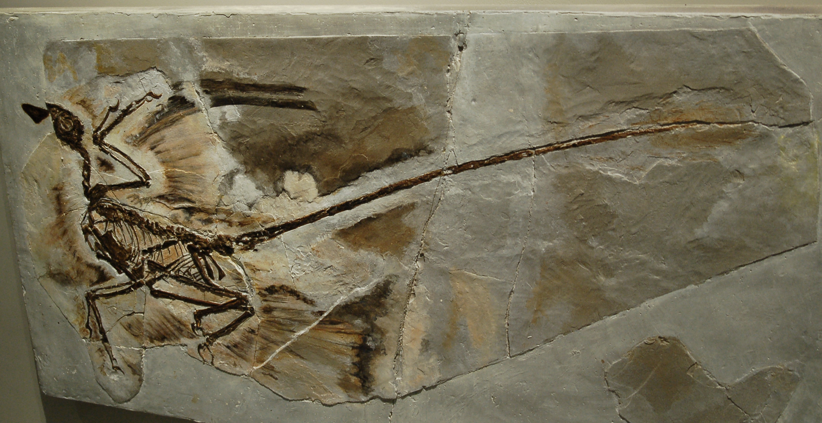 A cast of the type specimen of Microraptor gui on display at the "Dinosaurs: Ancient Fossils, New Discoveries" exhibit at the American Museum of Natural History in New York.